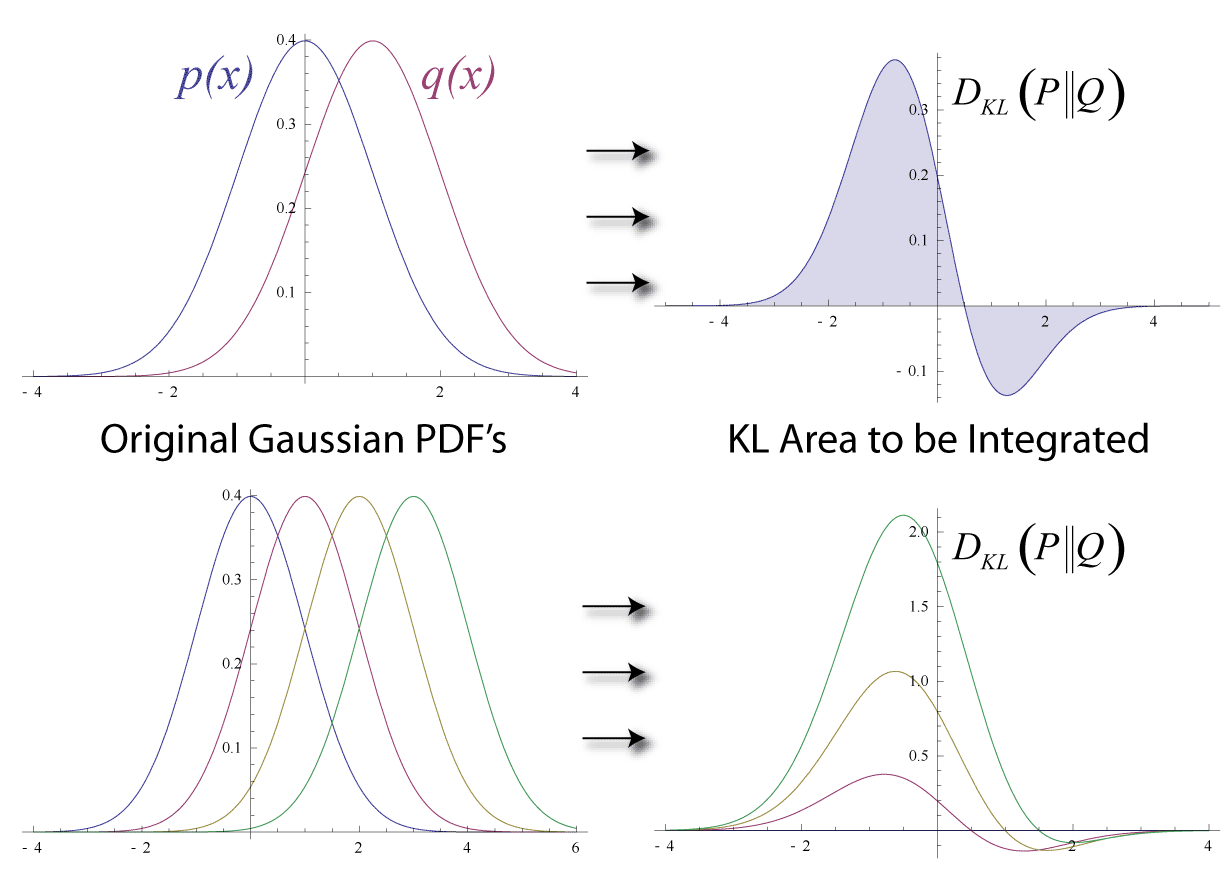 The Kullback-Leibler divergence for a normal Gaussian probability distribution. This is an illustration of the area which is integrated when computing the KL divergence. On the top left is an example of two Gaussian PDF’s and to the right of that is the area which when integrated gives the KL metric. Below it are three more examples showing that as the mean between two distributions grows linearly, the area integrated grows much faster.